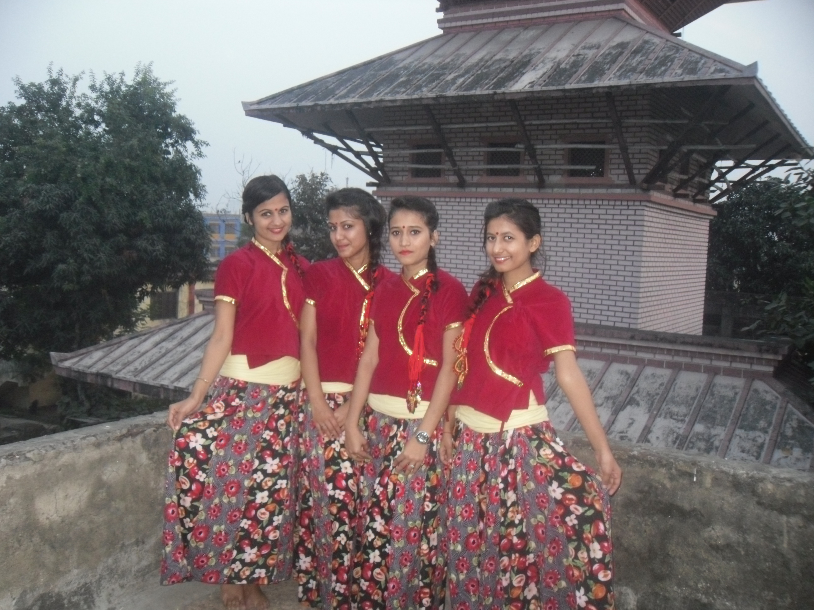 culture & tradition of nepal